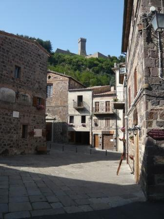 The Tuscan town of Radicofani